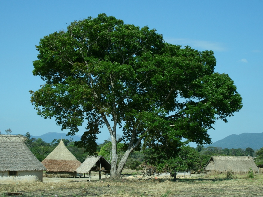 Hymenaea courbaril tree in Cacuri, Rio Ventuari, Venezuela